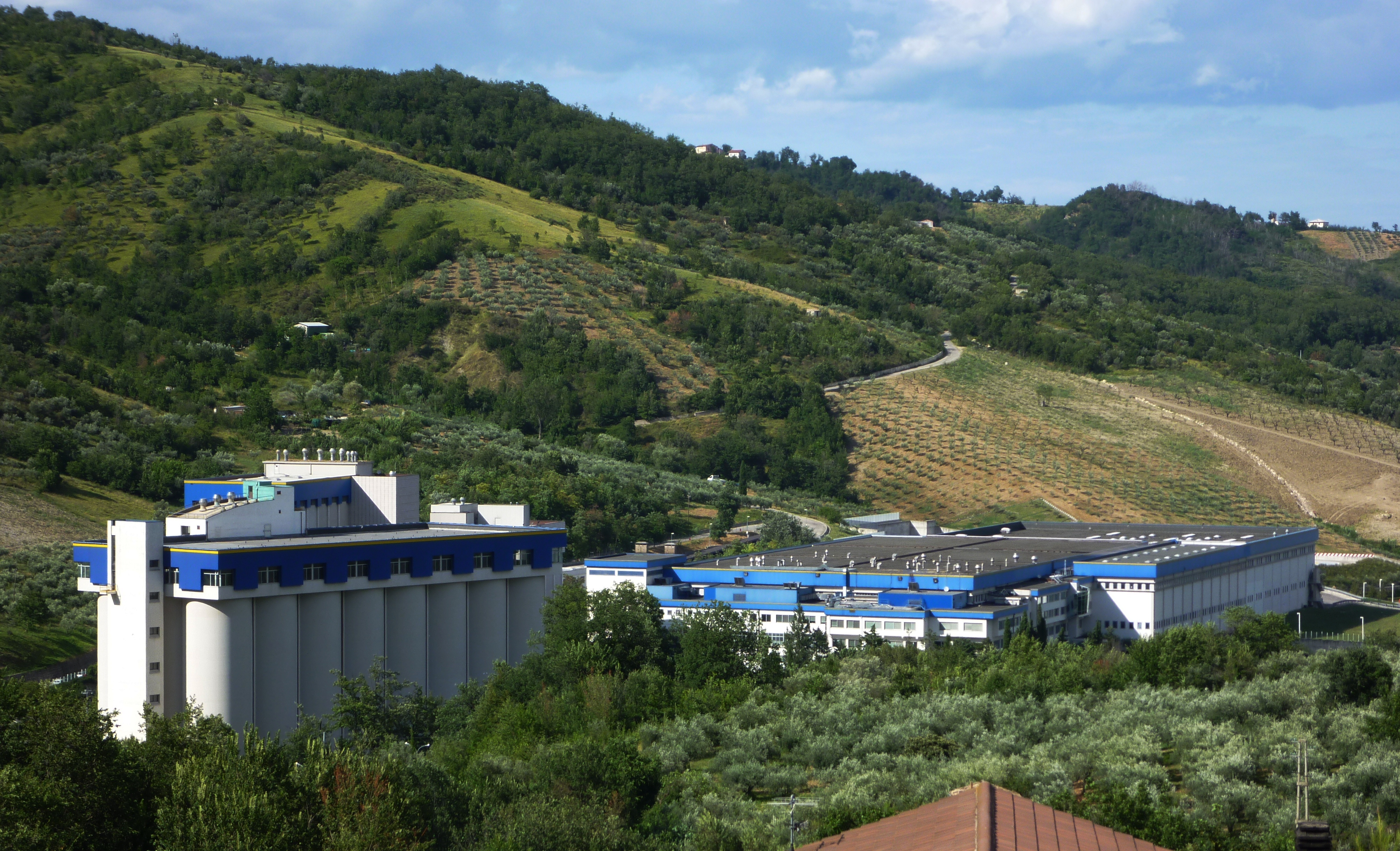 Factories of De Cecco, Fara San Martino, province of Chieti, Abruzzo, Italy.